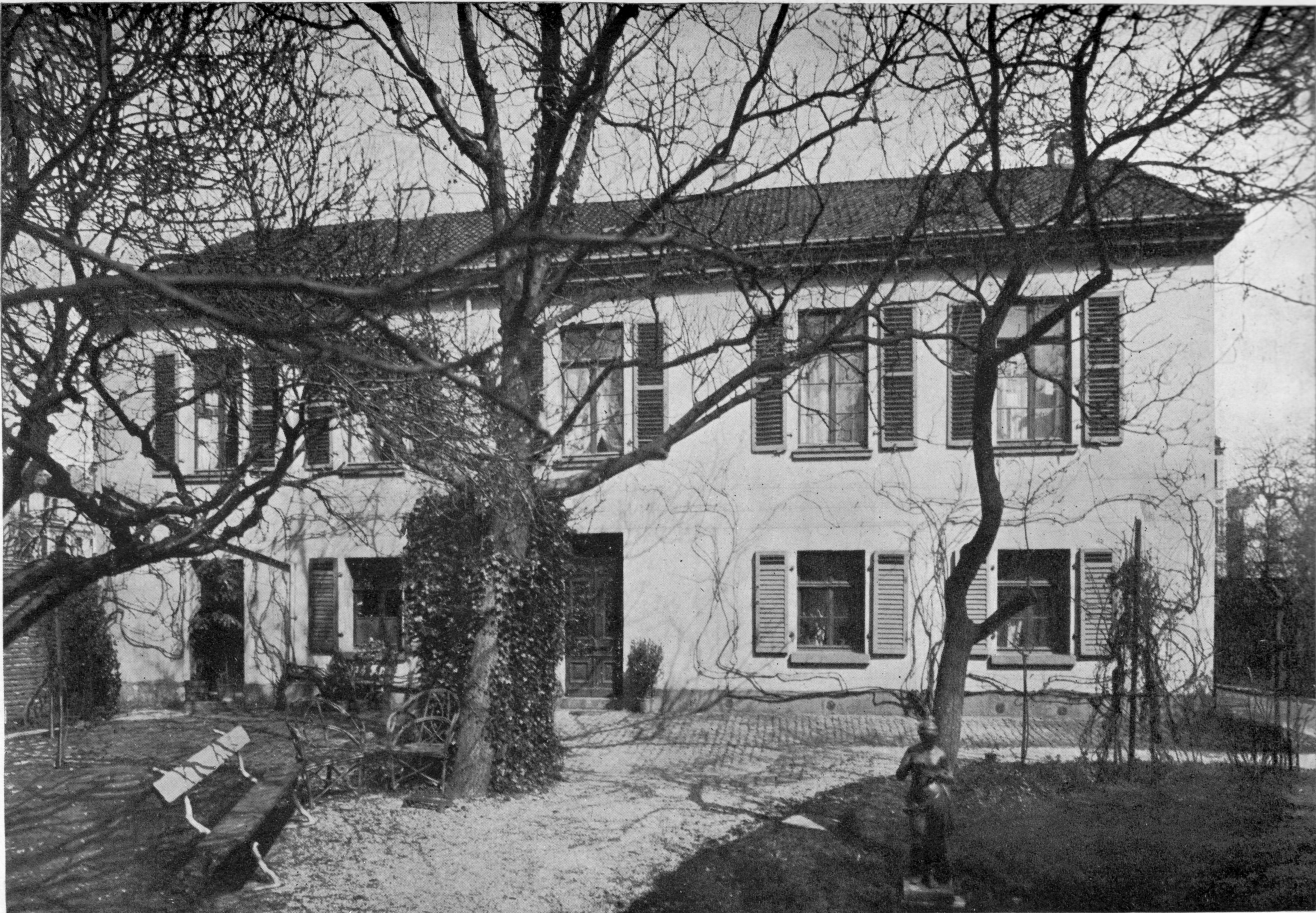 First lodge building of Friedrich Wilhelm zum eisernen Kreuz in Bonn, Germany, Schumannstr. 33